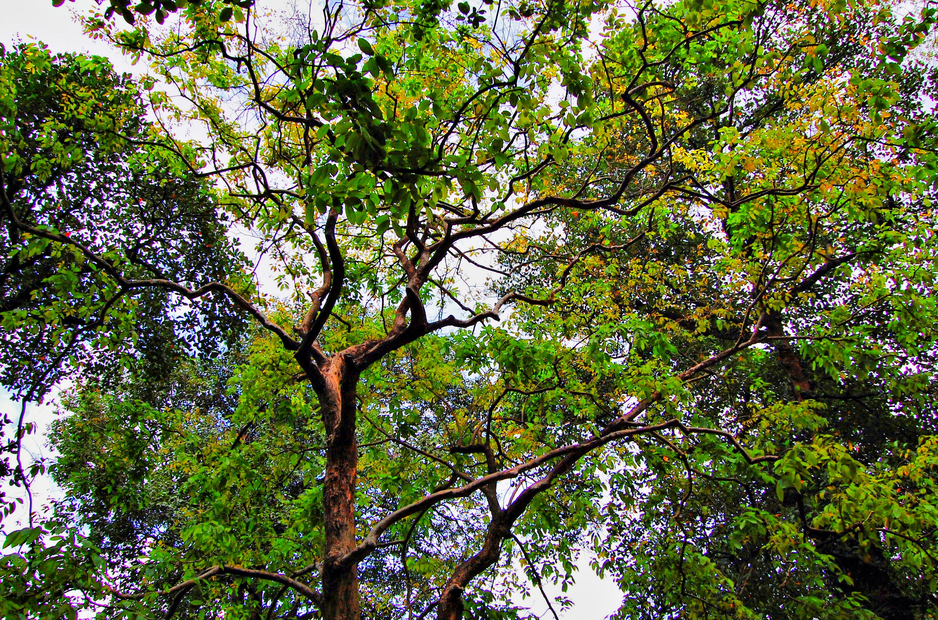 Lagerstroemia speciosa (Giant Crape-myrtle, Queen's Crape-myrtle or Banabá Plant)